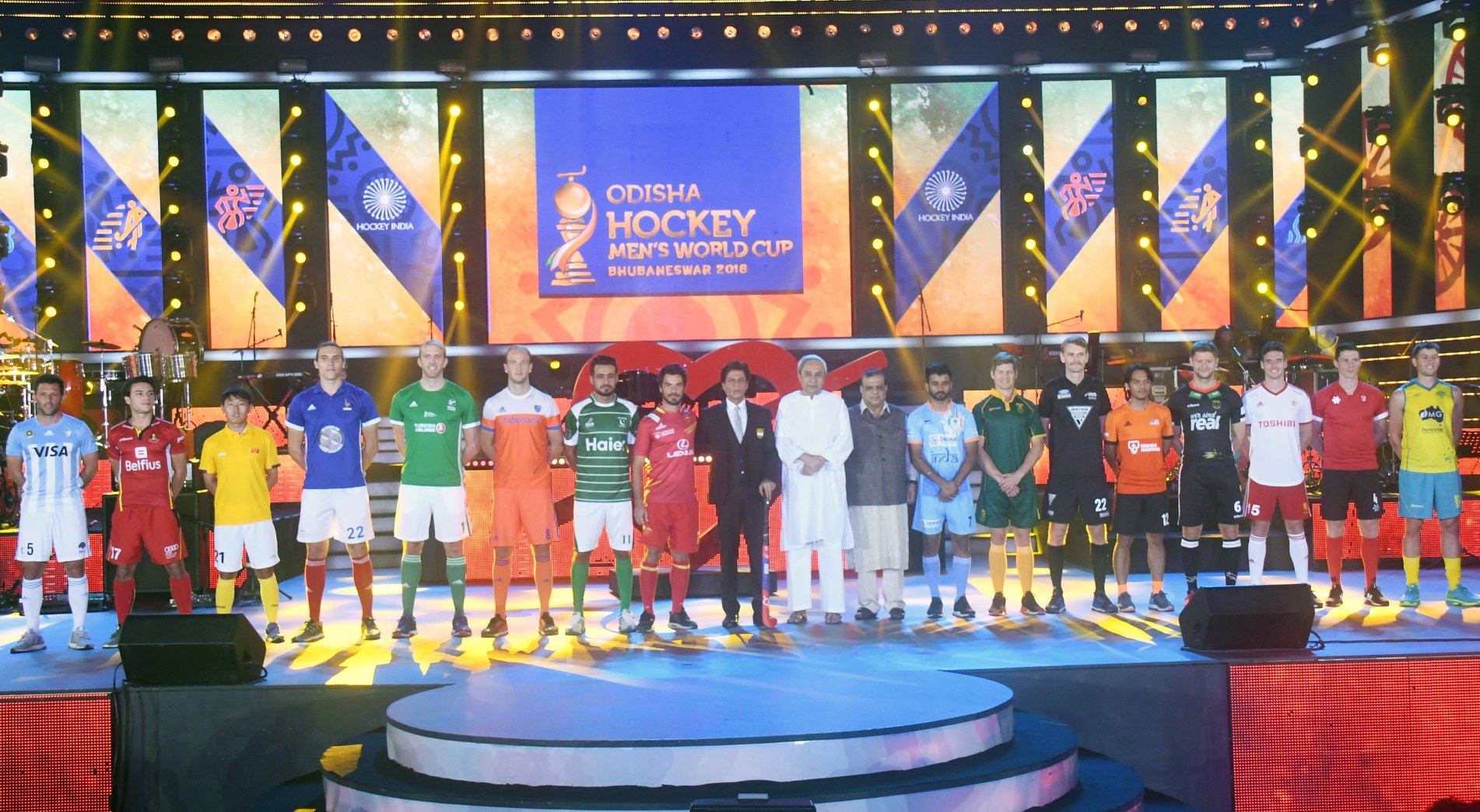 Captains of different hockey teams the opening ceremony of 2018 Men’s Hockey World Cup.